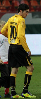 José Carlos Fernández Vázquez (2011-10-20)